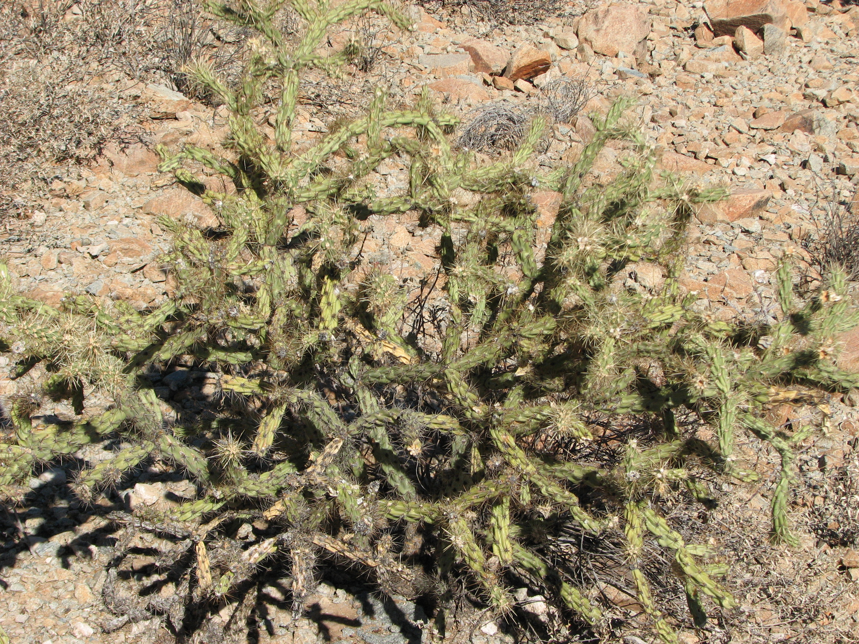 Cylindropuntia acanthocarpa - Organ Pipe Cactus National Monument - AZ